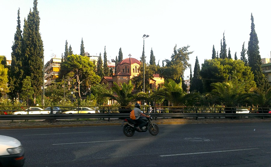 agios sostis